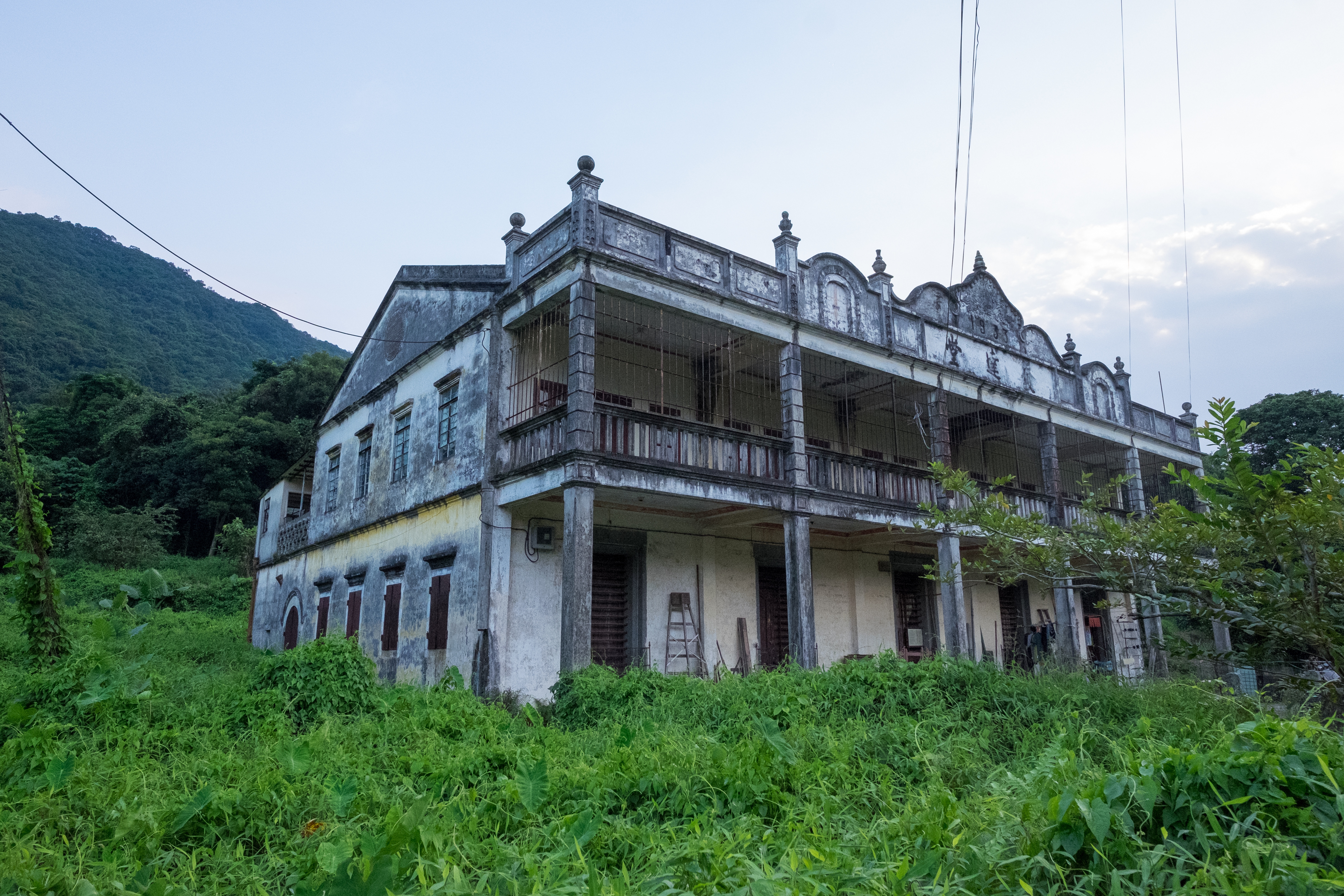 Fat Tat Tong